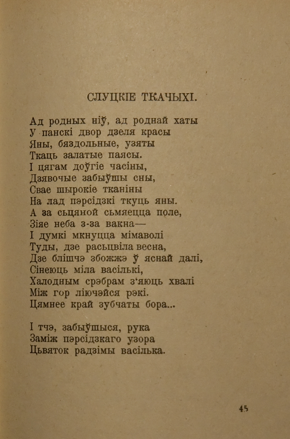 A photo of page from a reprinted book by Maksim Bahdanovič, originally published in 1914. Беларуская (тарашкевіца): Фатаздымак старонкі зь вершам «Слуцкіе ткачыхі» Максіма Багдановіча з факсымільнага выданьня 1985 году зборніка твораў «Вянок», выдадзенага ў 1914 годзе.